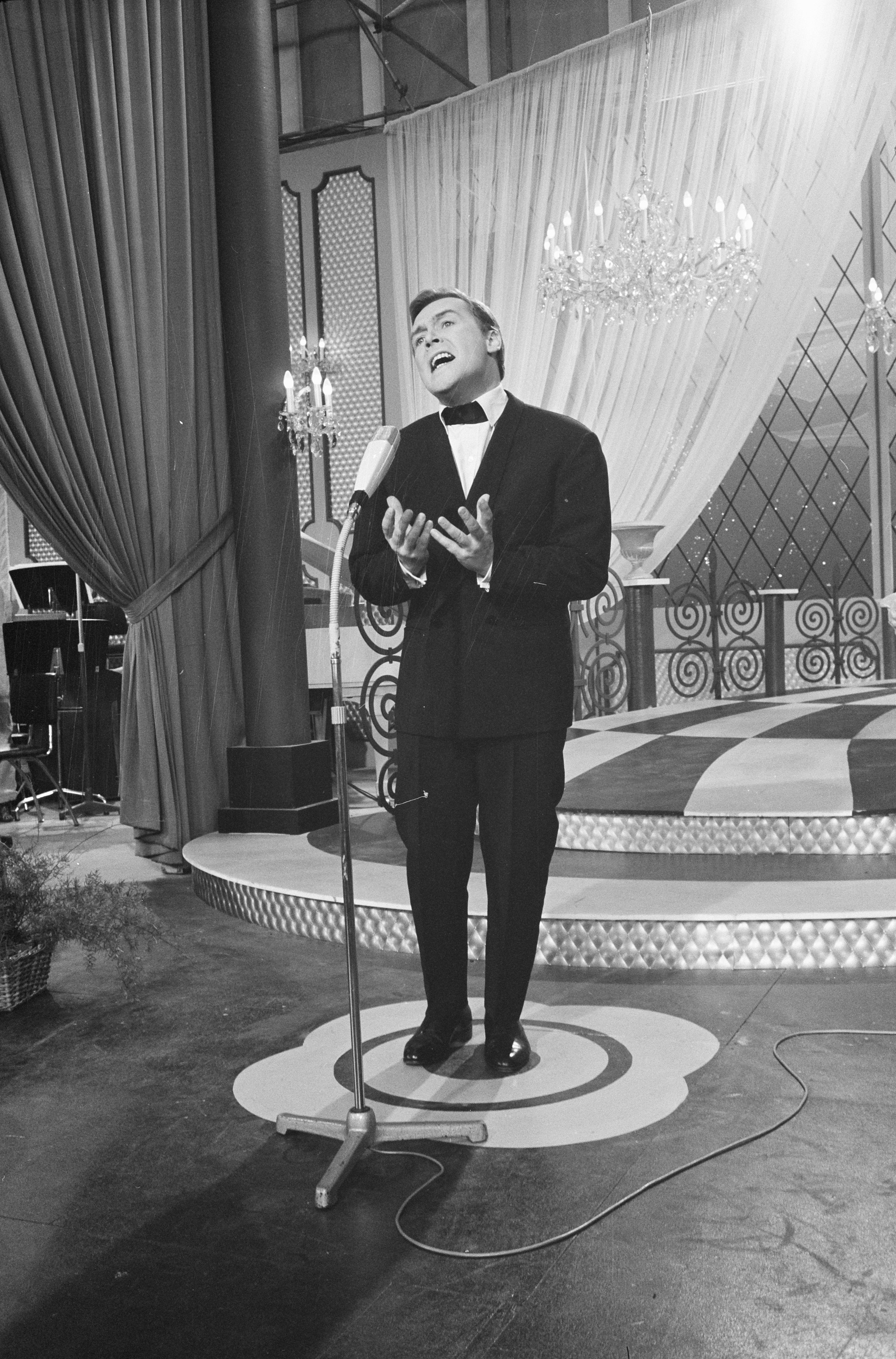 François Deguelt at the 1962 Eurovision Song Contest in Luxembourg